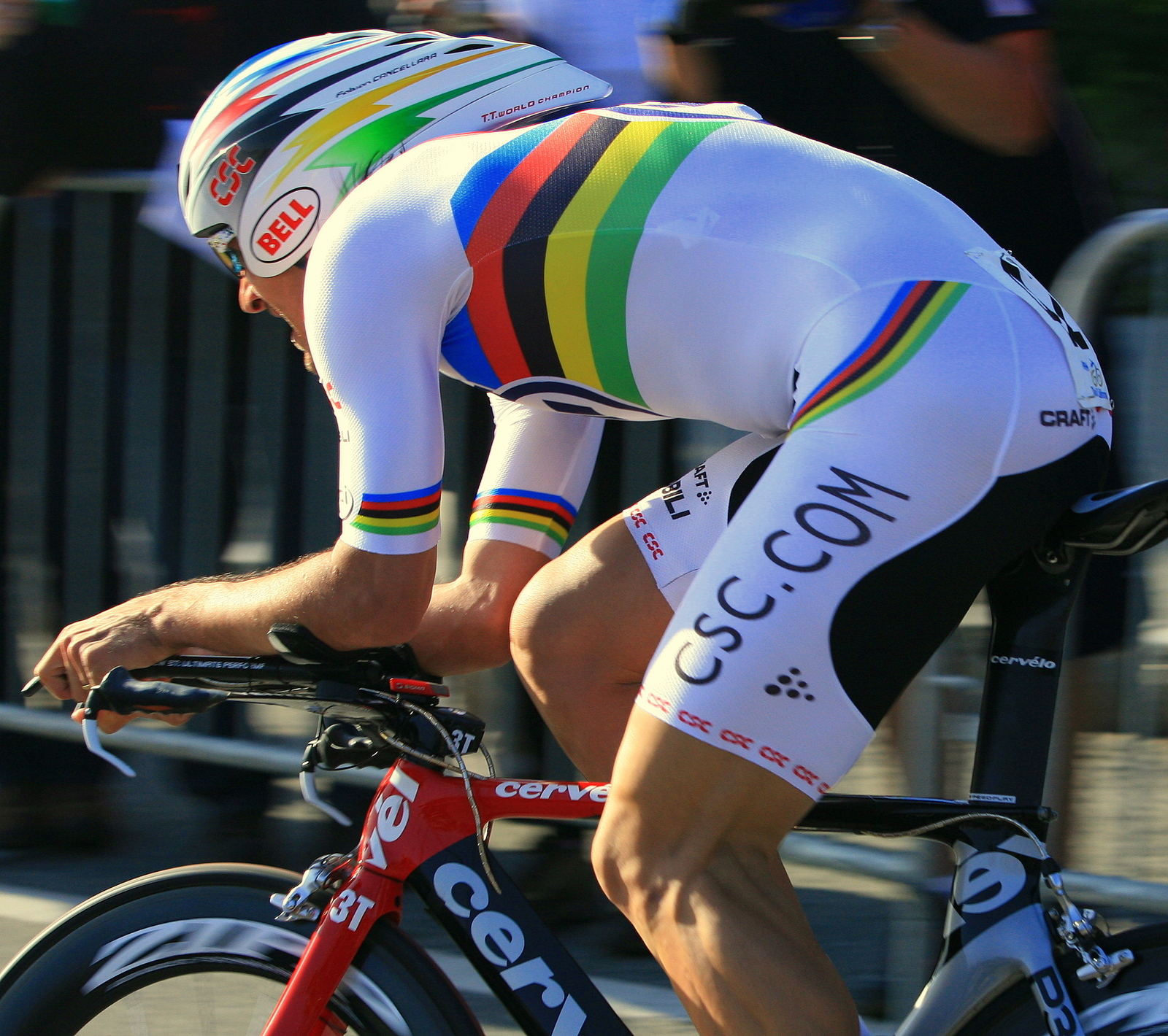 Fabian Cancellara at the Prologue of the Tour of California in Palo Alto